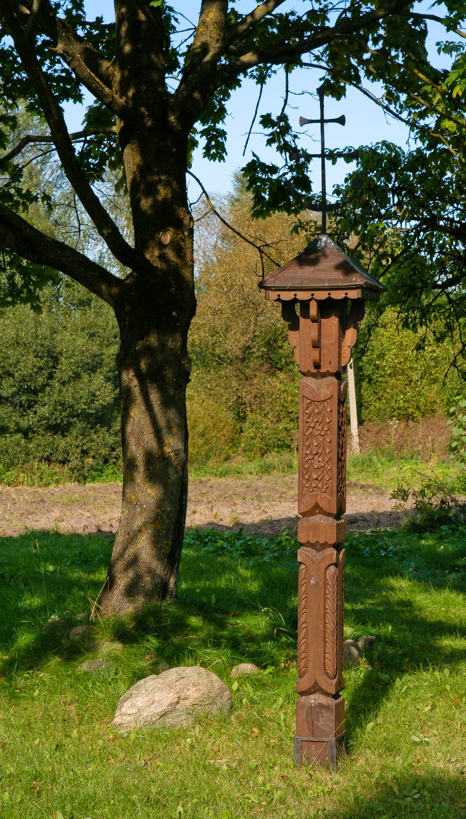 Cross in Vepriai marking the site where Leonardas Gutauskas has spent his childhood